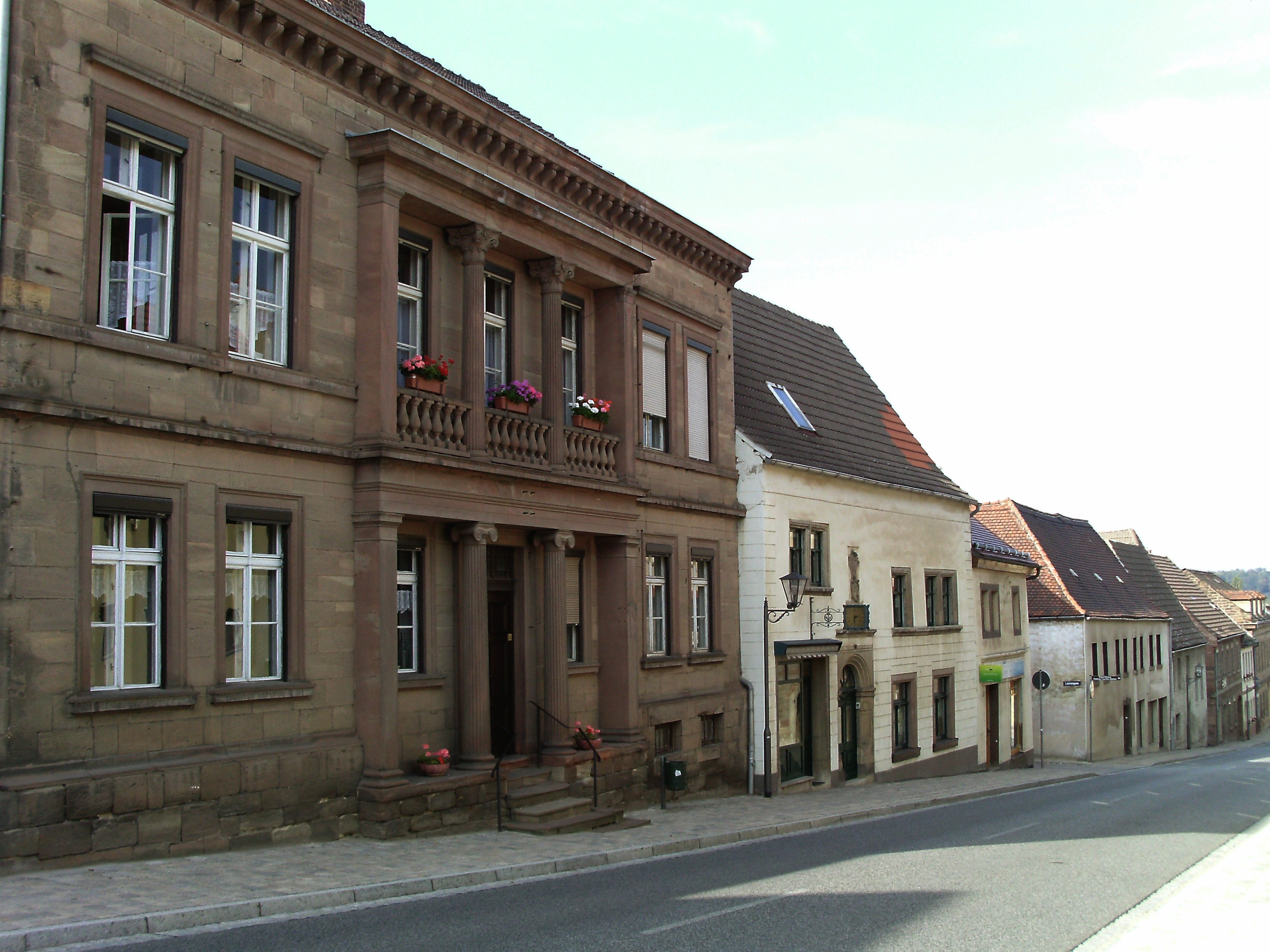 Breite Strasse in Nebra/Unstrut (district of Burgenlandkreis, Saxony-Anhalt)